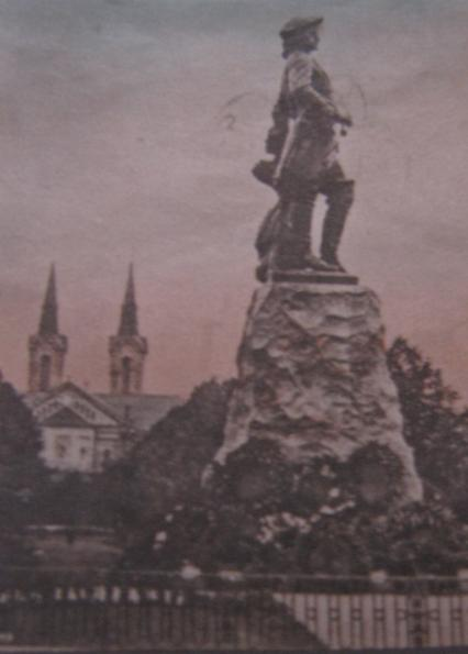 Bronze equestrian monument of Peter the Great. Reval (Tallinn)